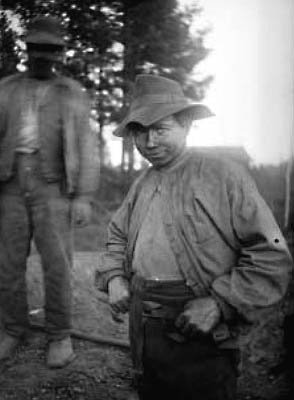 Fotography of Karl Laerka, selfportrait.